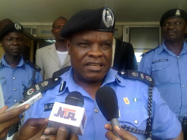 AIG Udah addressing the press